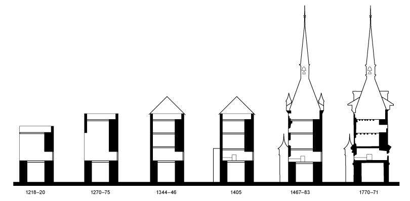 East/West cutaway drawings of the Zytglogge tower in Berne, Switzerland after each of its six main construction periods. Internal latticeworks, stairs, walls etc. omitted.